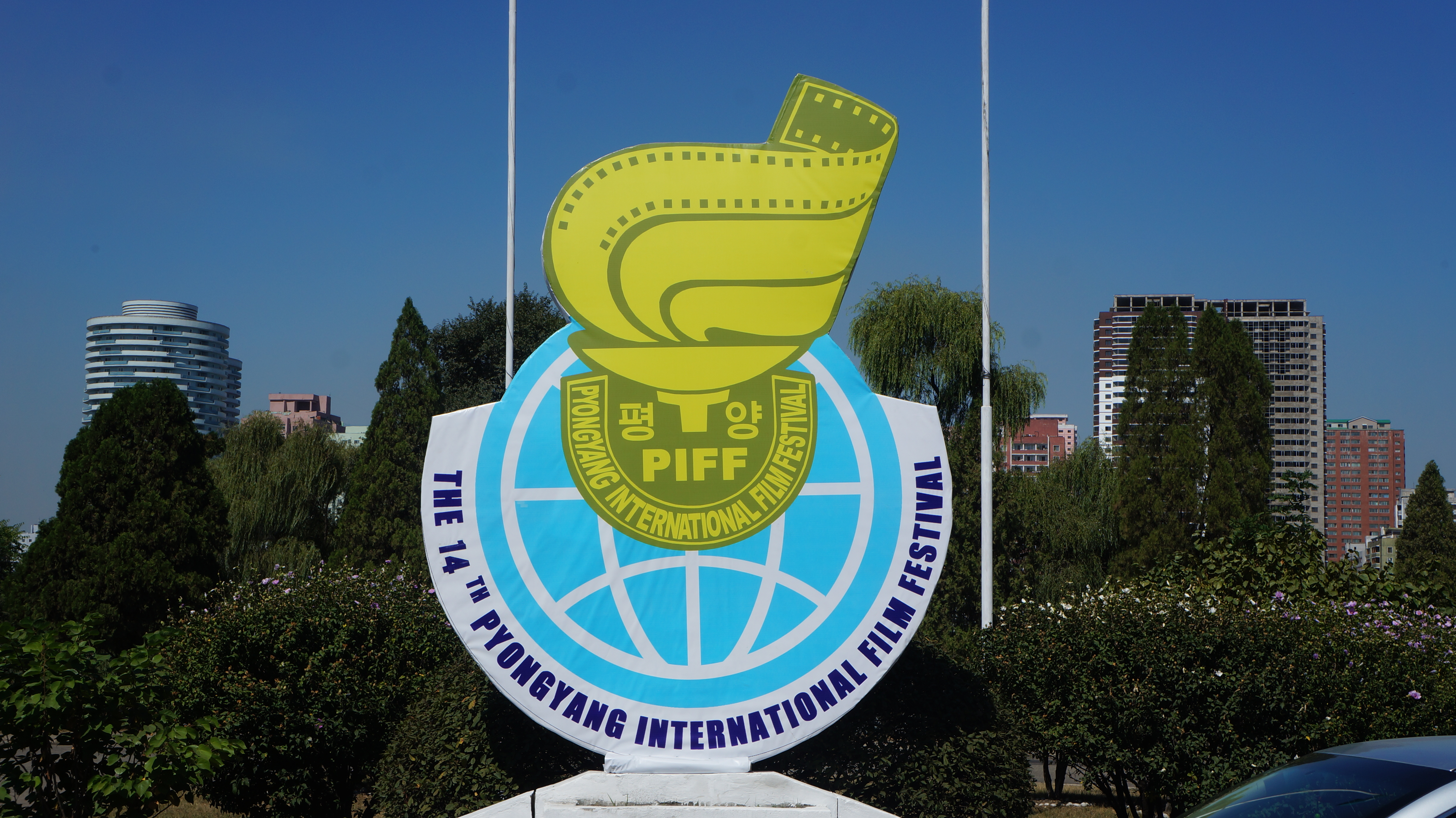 Official mark of the PIFF